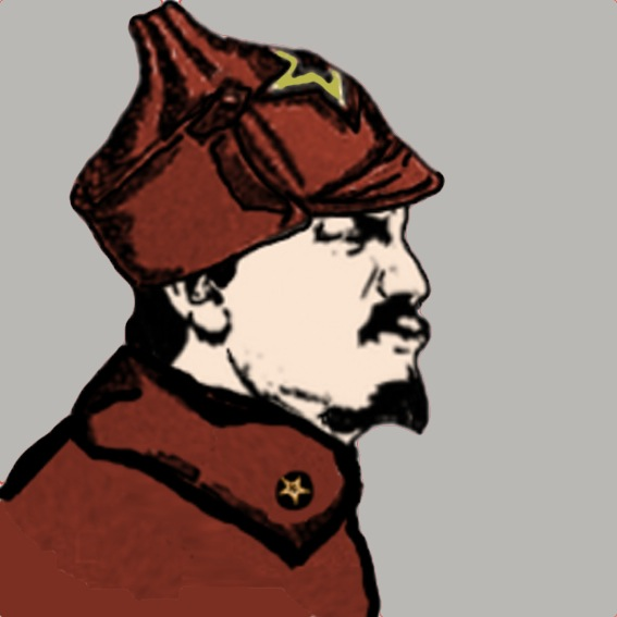 Artist depiction of Trotsky during Russian Civil War